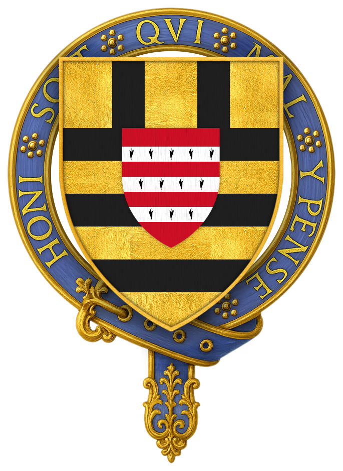 Sir John Burley, KG, also of Sir Simon Burley, KG BELTZ, George Frederick, Memorials of the Order of the Garter from Its Foundation to the Present Time, London: William Pickering, 1841. “ Sir John Burley… Arms: Barry of six Sable and Or, a chief of the last charged with two pallets Sable, on an inescocheon Gules three bars Ermine. ” “ Sir Simon Burley… Arms: Barry of six, Sable and Or, a chief of the last charged with two pallets of the first; on an inscocheon [sic] Gules three bars Ermine. ”